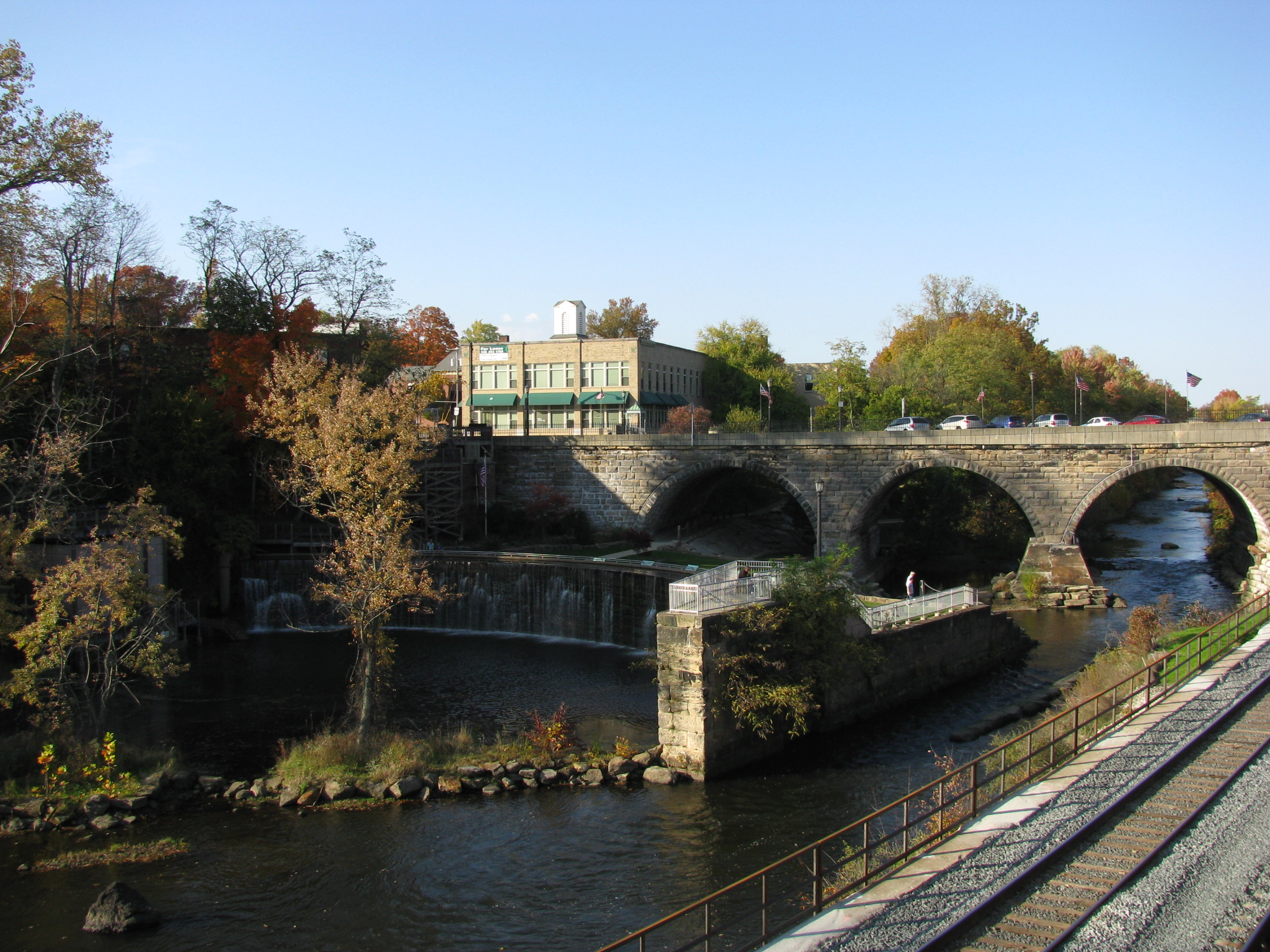 Main Street bridge (1877) and old arch dam (1836) with remains of lock in downtown Kent, Ohio.